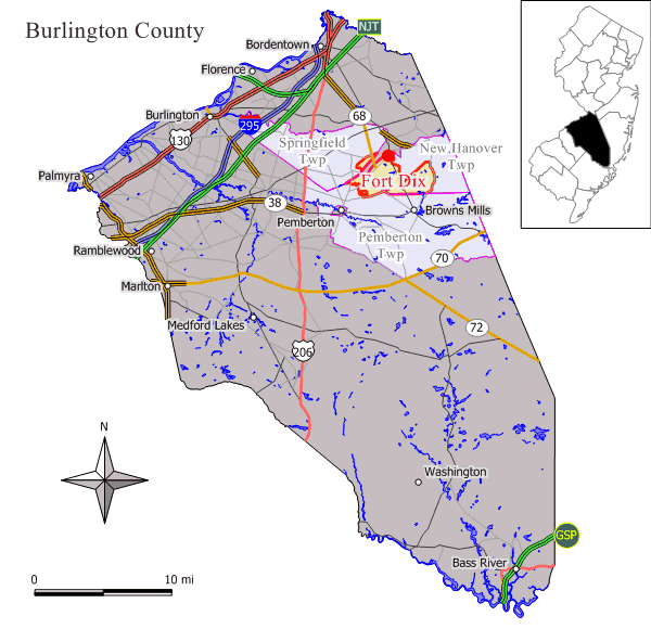 Source: Jim Irwin Original work by Jim Irwin, December 2005.